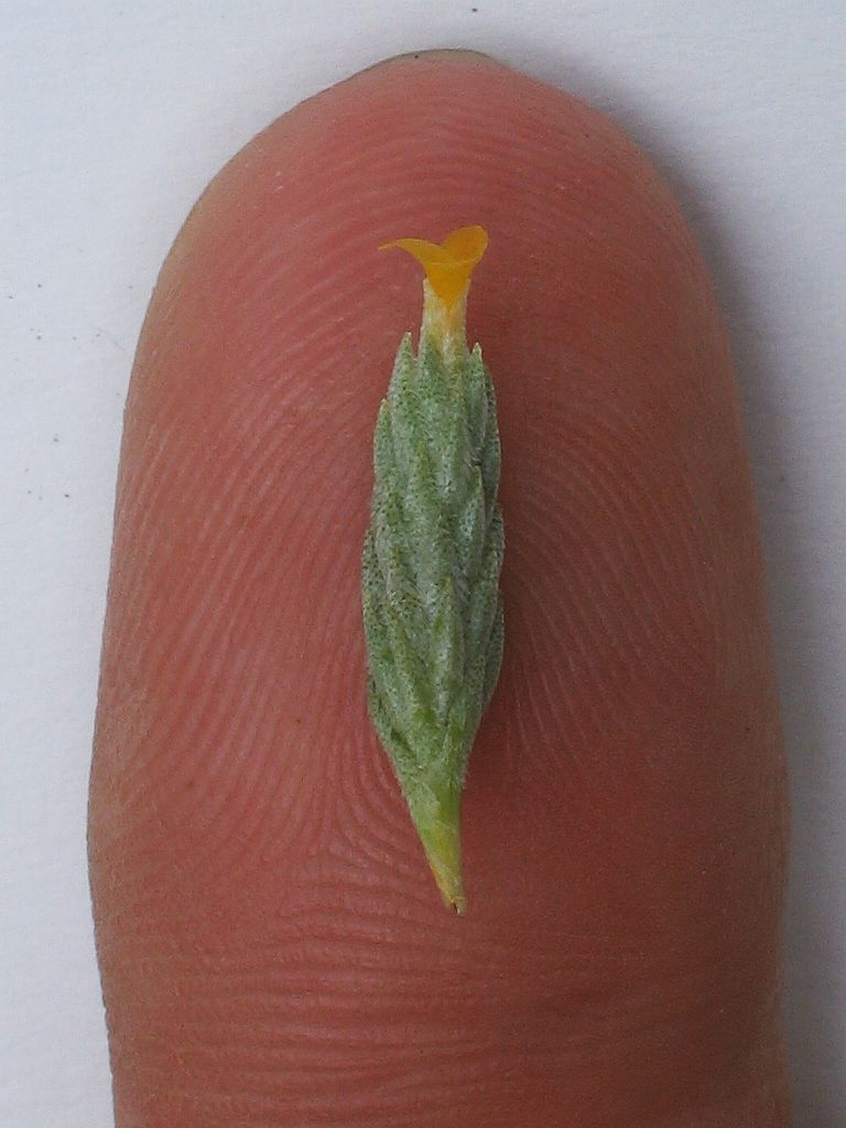 Tillandsia bryoides, in cultivation at the Botanical Garden of Heidelberg, Germany.